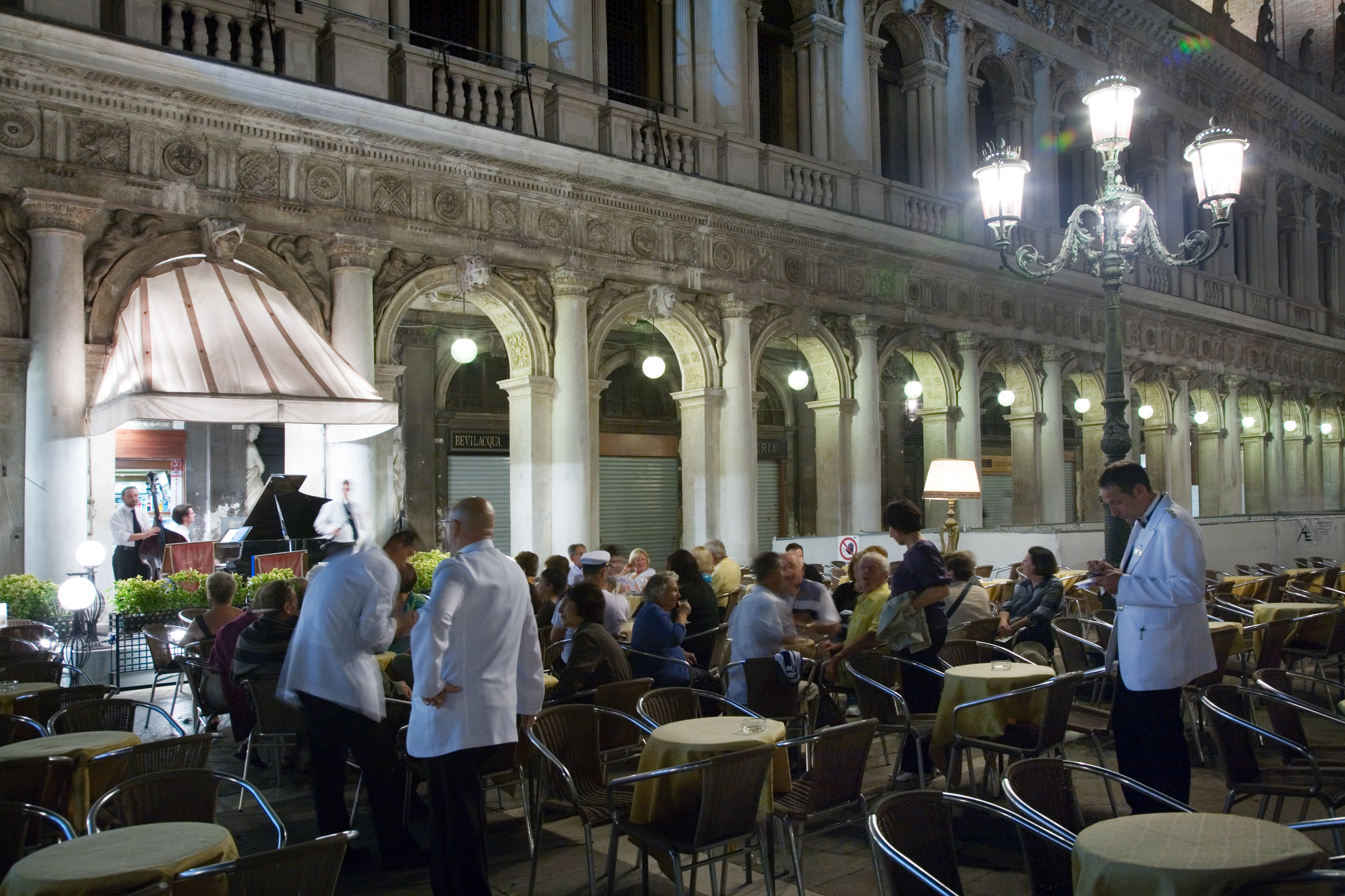 Cafe in Piazza di San Marco, Venice, Italy 2009